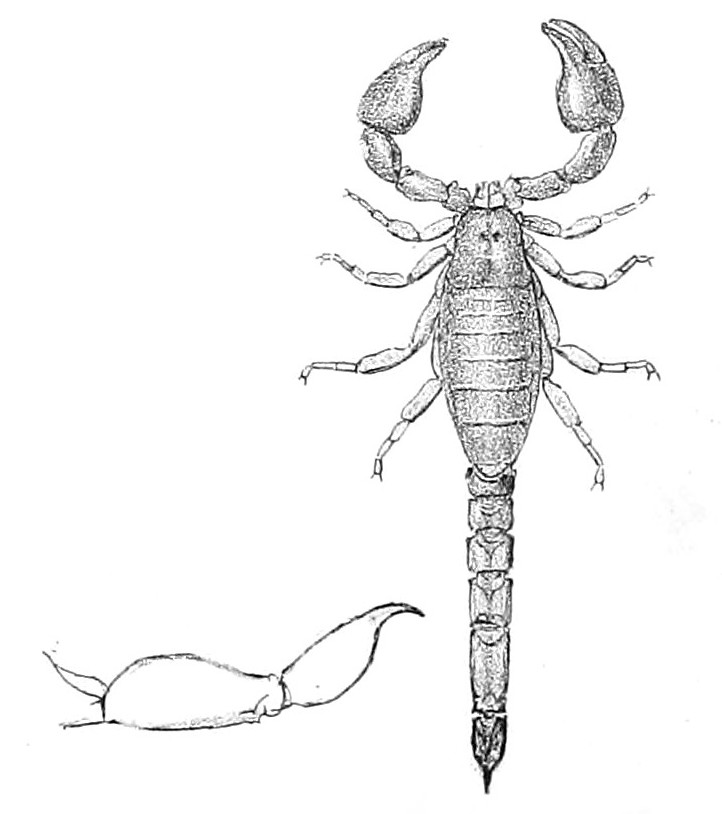 Broteochactas nitidus